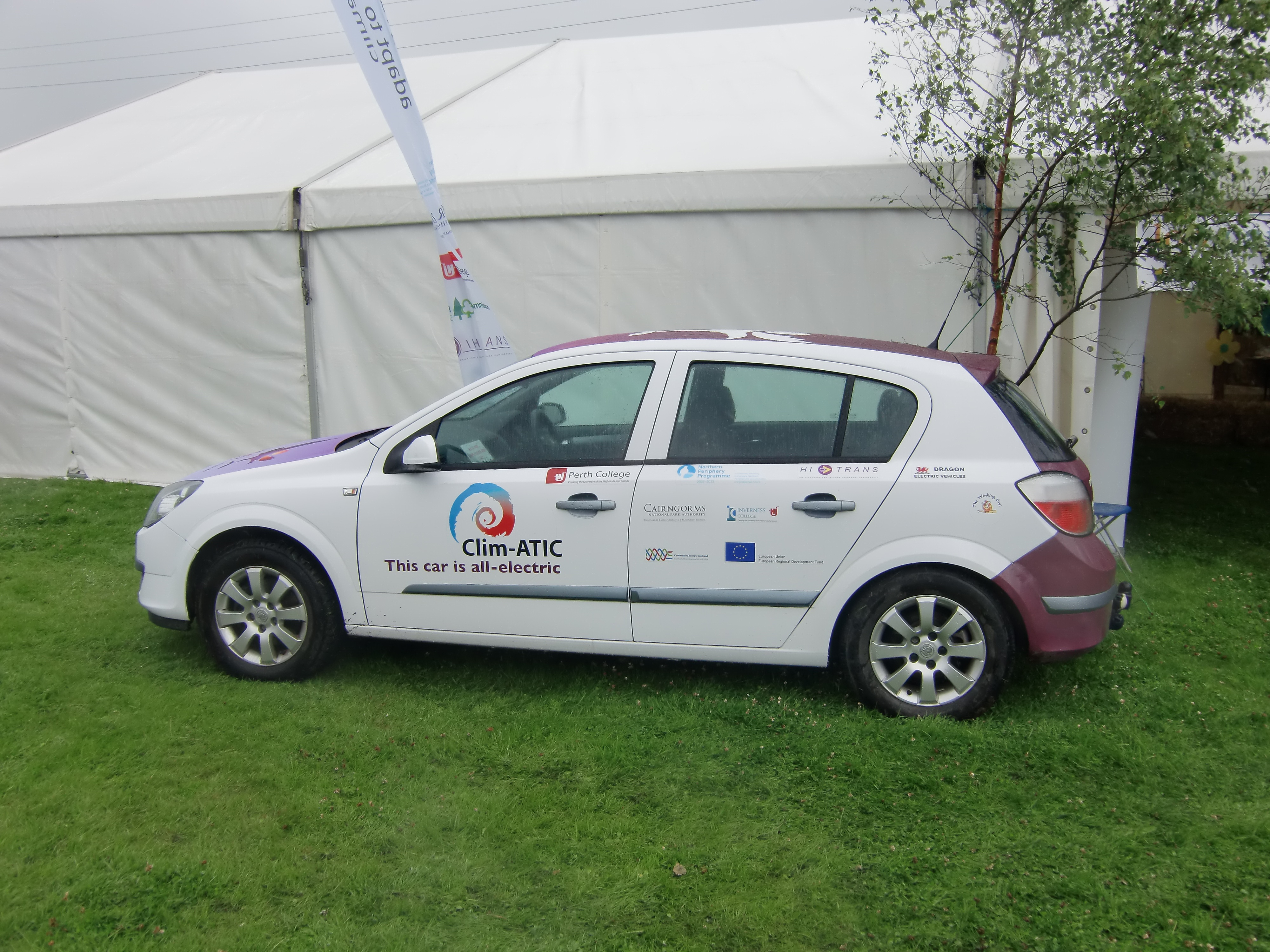 Cairngorm National Park Authority electric Peugeot at the Granton-on-Spey Show.